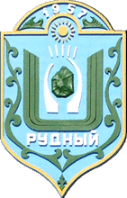 Coat of arms of Rudnyi